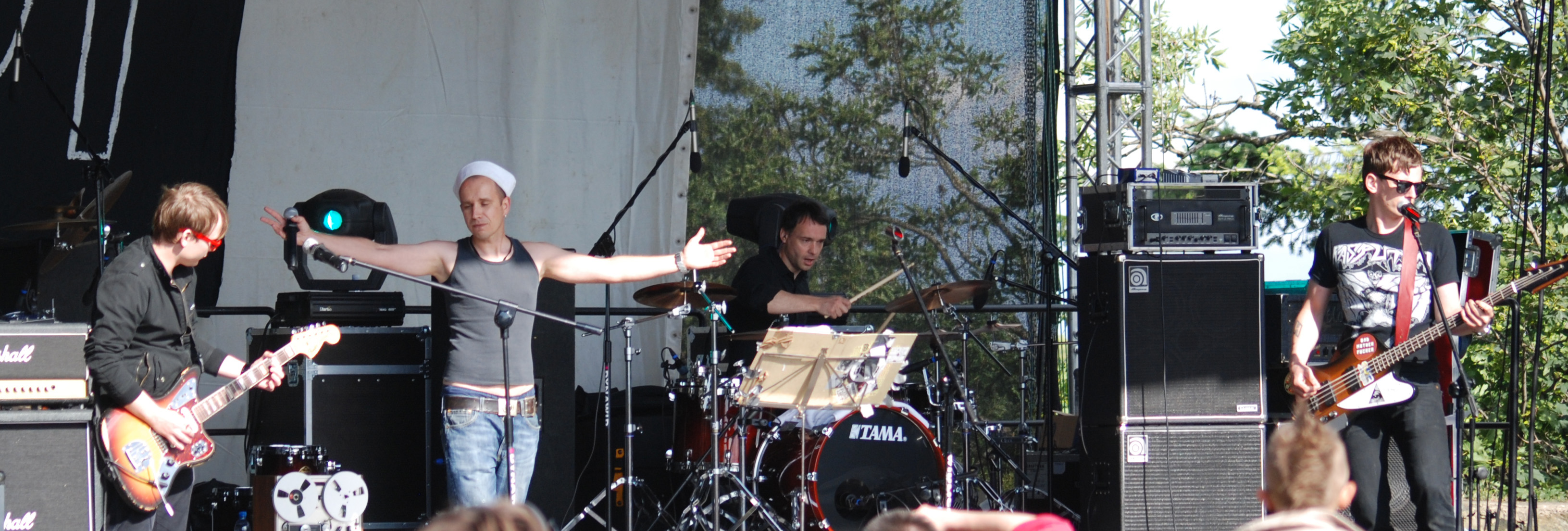 This photo was made in cooperation with CASTLE PARTY PRODUCTIONS in Bolków (webpage)